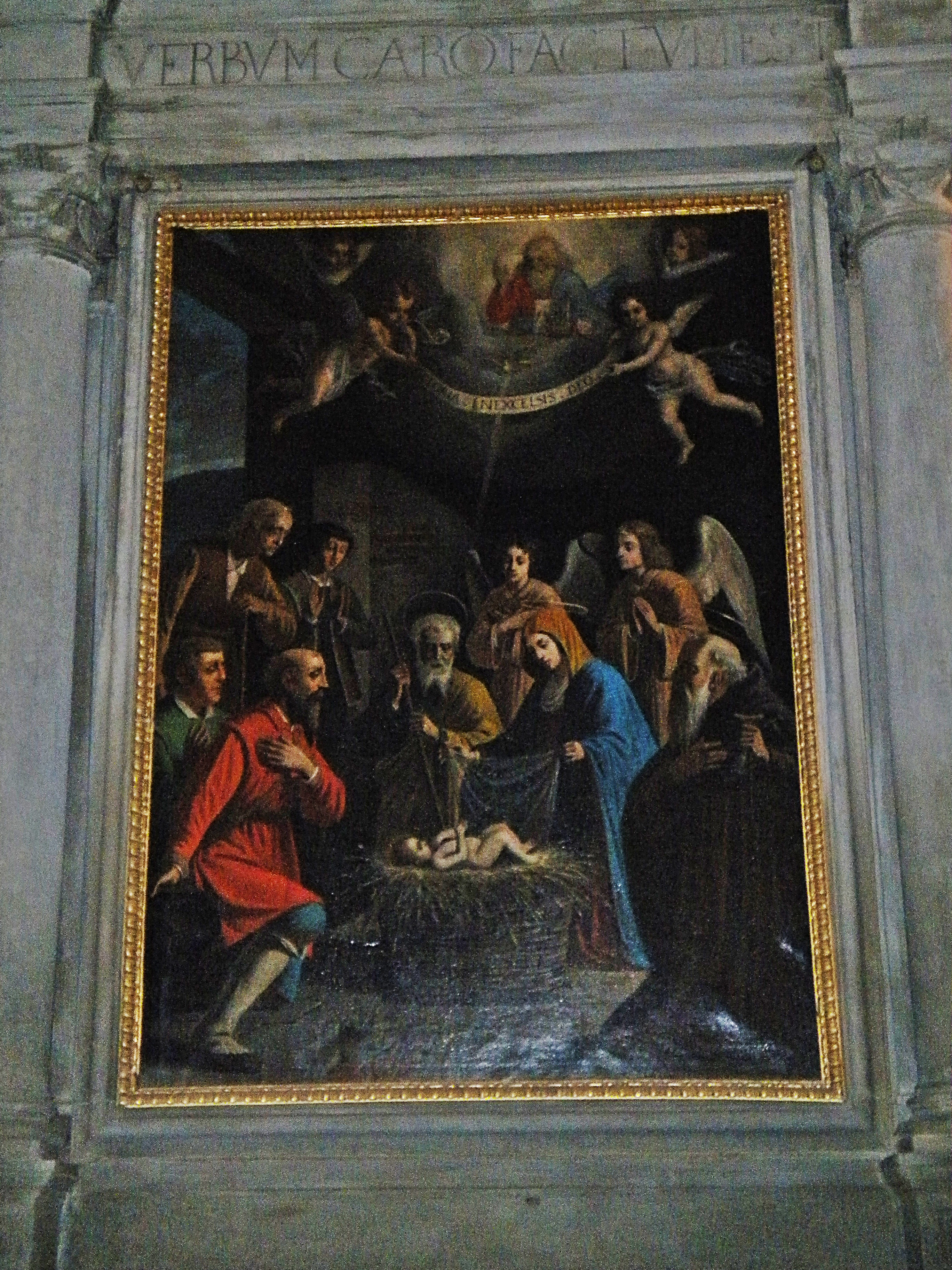 adoration of the shepherds autor:g.p.naldini